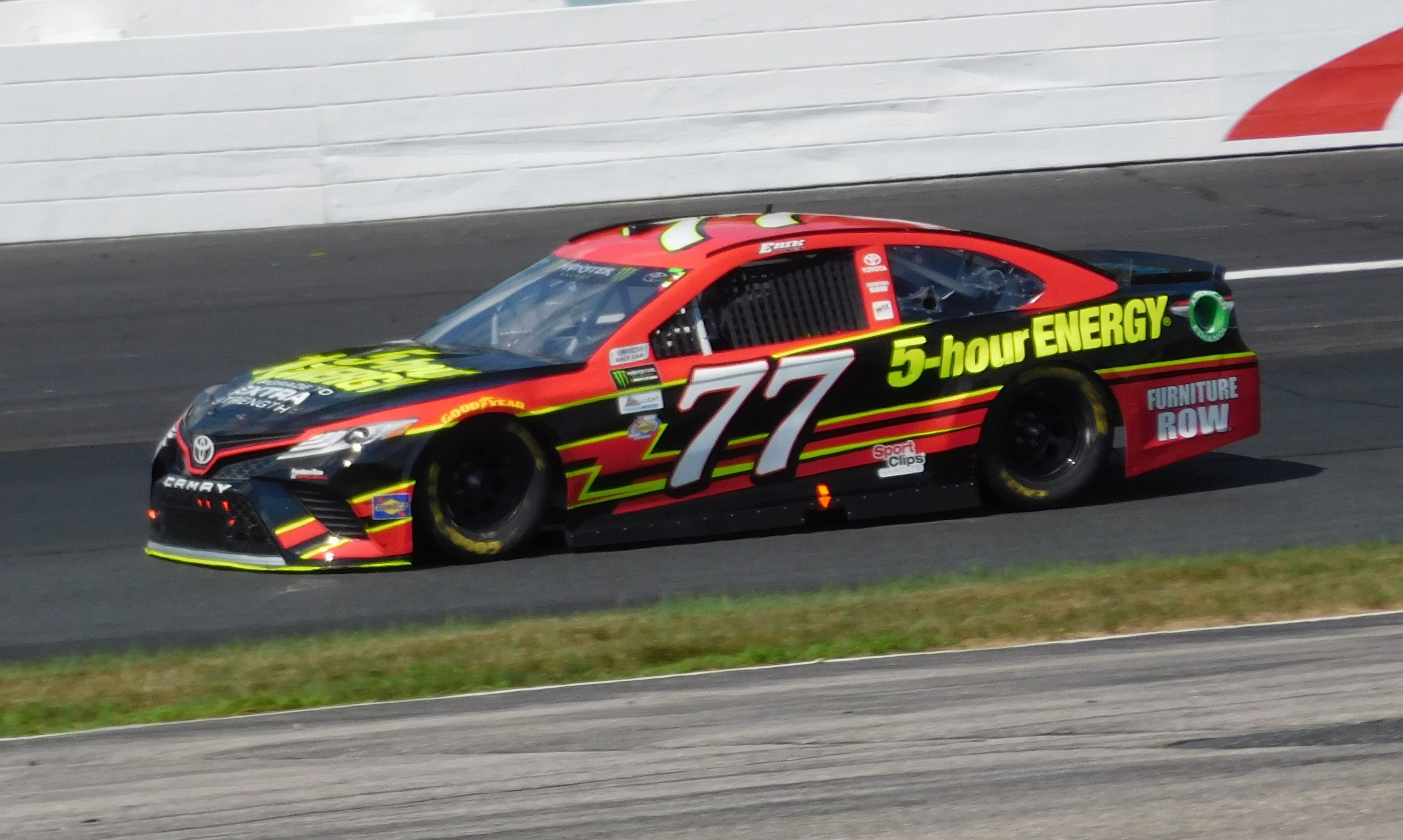 Erik Jones racing during the 2017 Overton's 301 at New Hampshire Motor Speedway